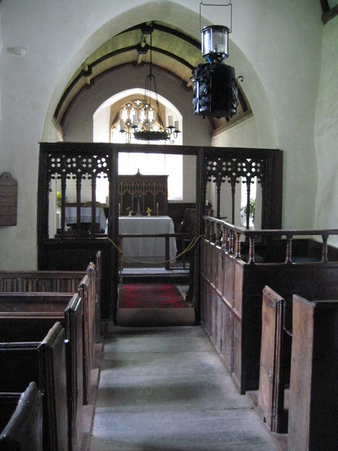 Interior of Culbone Church View along the nave to the altar of Culbone church, England's smallest church.